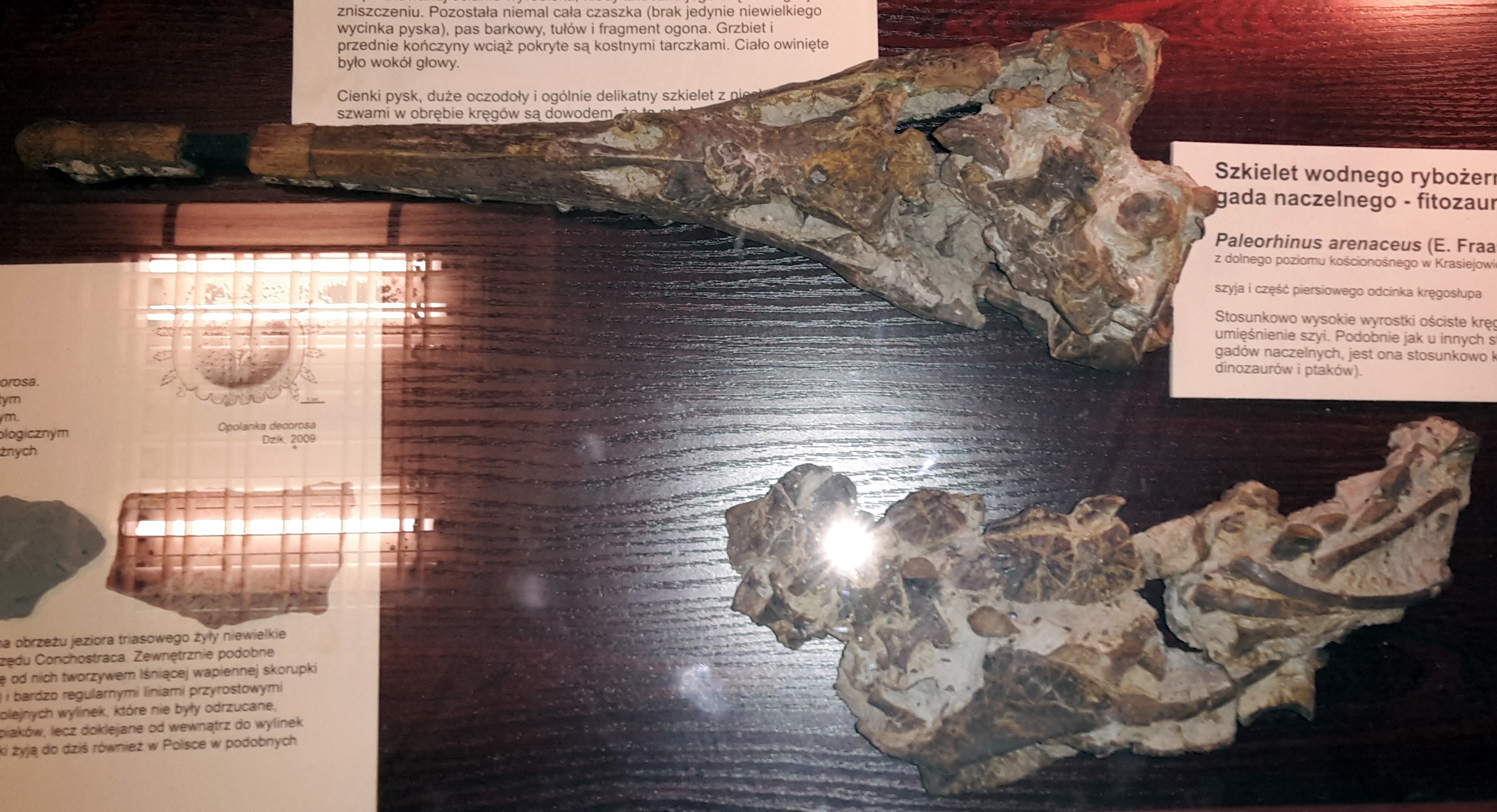 Paleorhinus arenaceus skull and skeleton, Museum of Evolution of Polish Academy of Sciences, Warsaw.